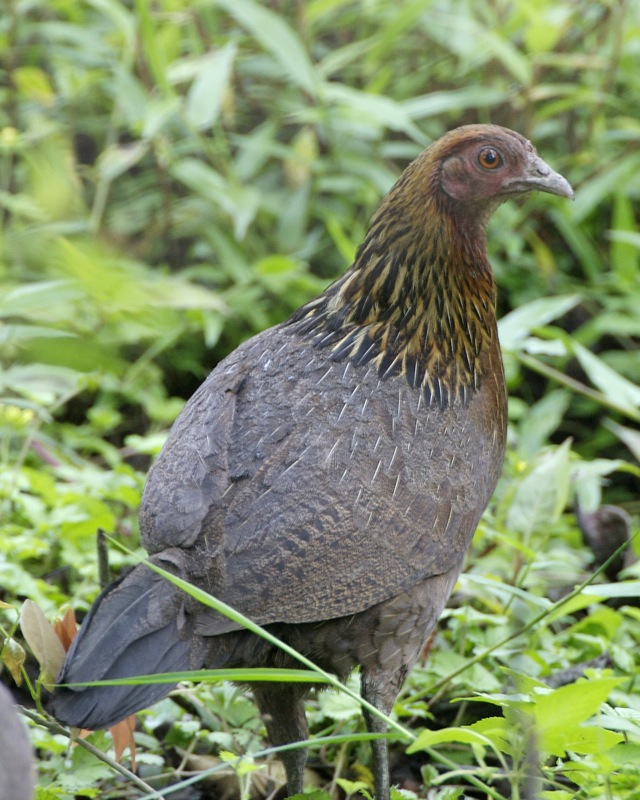 Red Junglefowl Gallus gallus - female. Kaziranga, Assam, India; 15 April 2008.